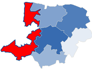 Gmina Grudziądz